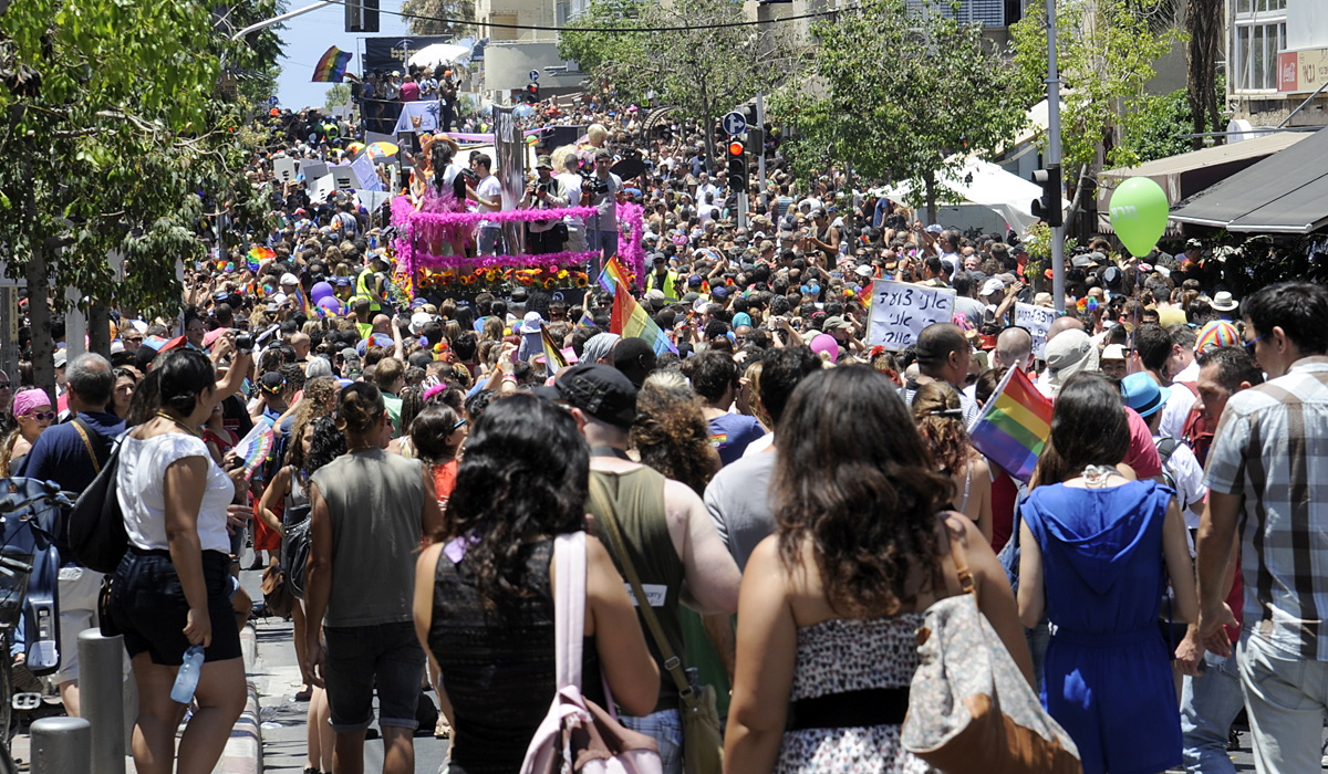 Ambassador Shapiro attended the Gay Pride Parade on Friday, June 8, 2012. In Gan Meir park, he met with several groups working for LGBT rights and answered questions from media about LGBT Human Rights. Prior to the kick-off of the parade, the Ambassador took to the main stage. Speaking to a crowd of thousands of marchers he emphasized the recent work of the U.S. government to raise awareness of LGBT rights around the world and acknowledged the achievements of the Israeli LGBT community to gain equal rights. After the speech, he met Embassy personnel marching in the parade with diplomats from other missions in Tel Aviv and joined them along the parade route.